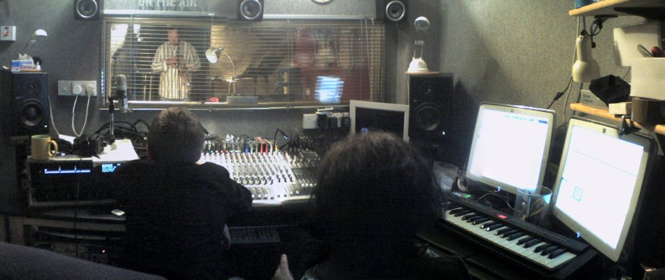 Photo of a recording studio control room during recording, viewing a trumpet part performance in the studio room, for Witches' Heart of Stone album